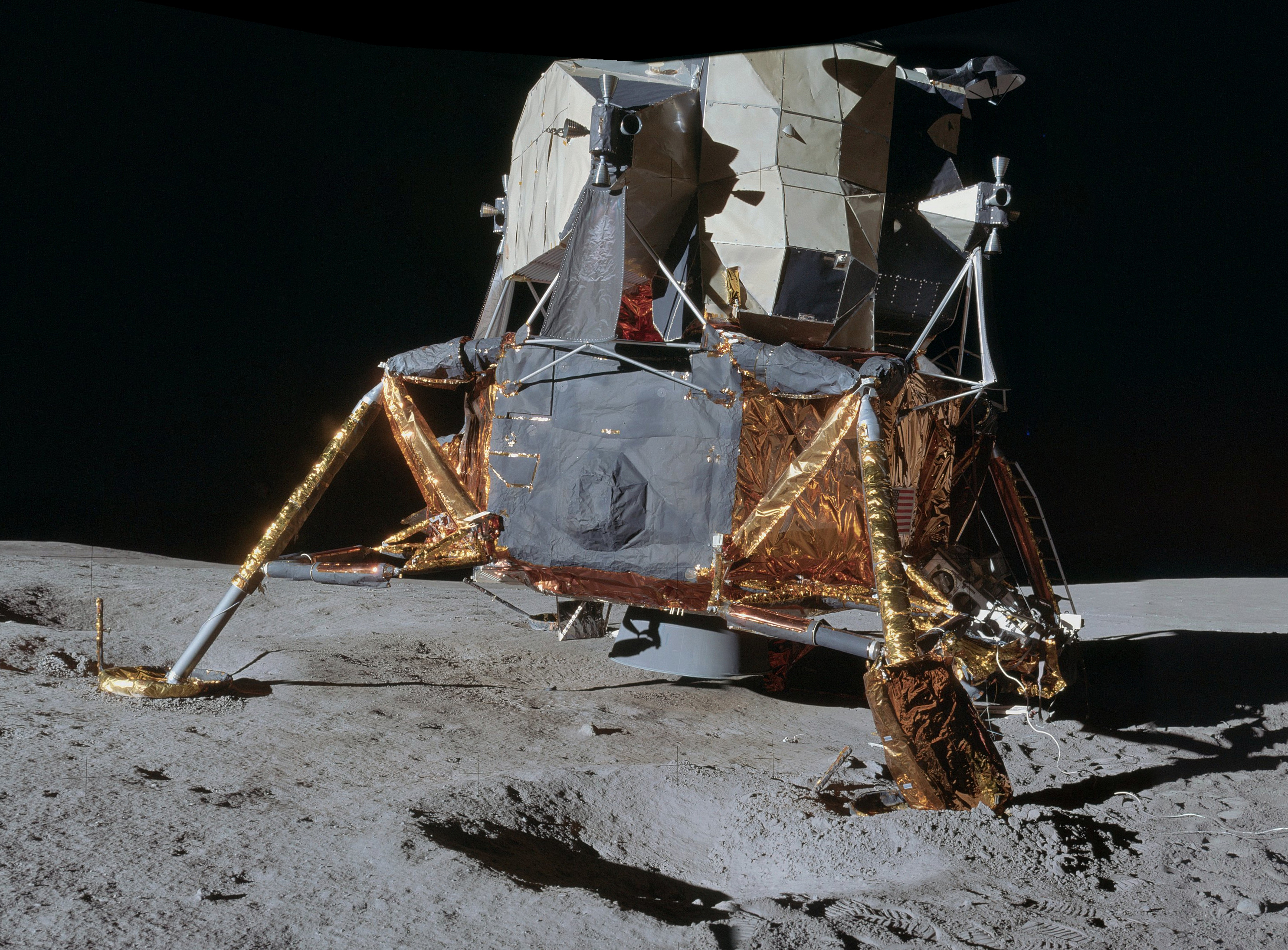 Apollo 14 Lunar Module on the Moon